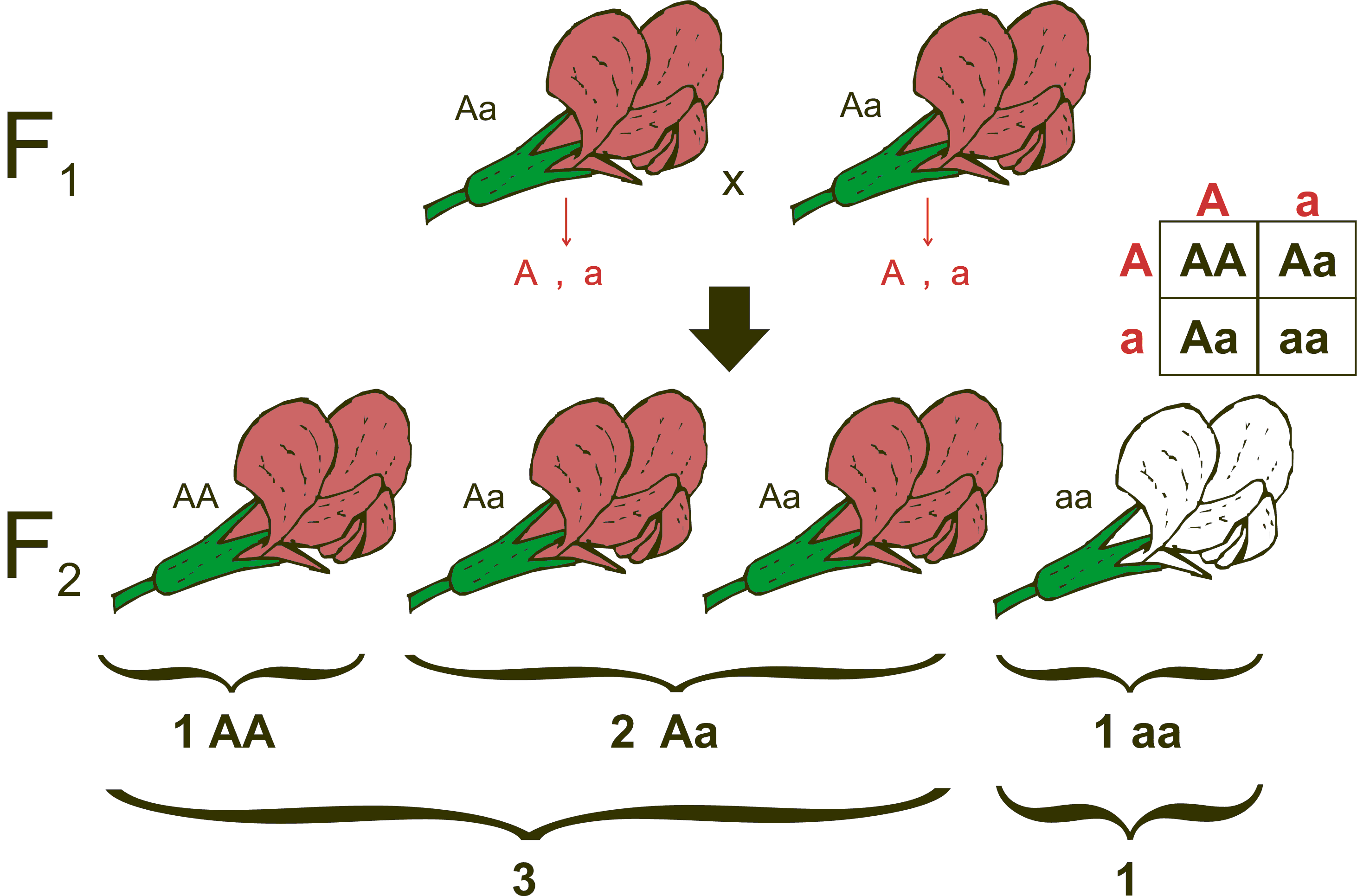 Mendel's law of segregation